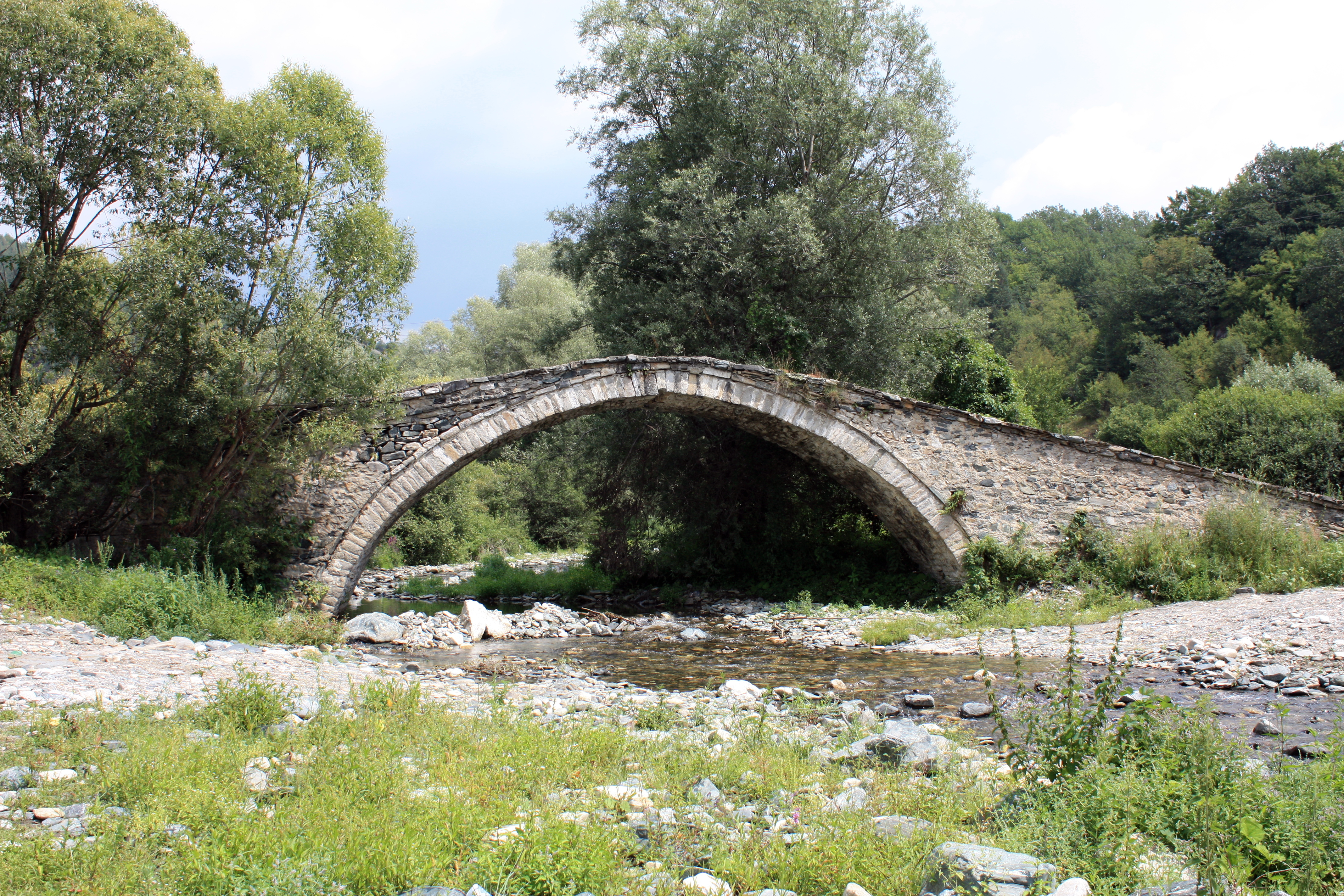 Ancient Roman bridge in the area of Banyan, Chech, eastern of the village Dolen over the river Bistrica (Chech) in Satovcha Municipality.